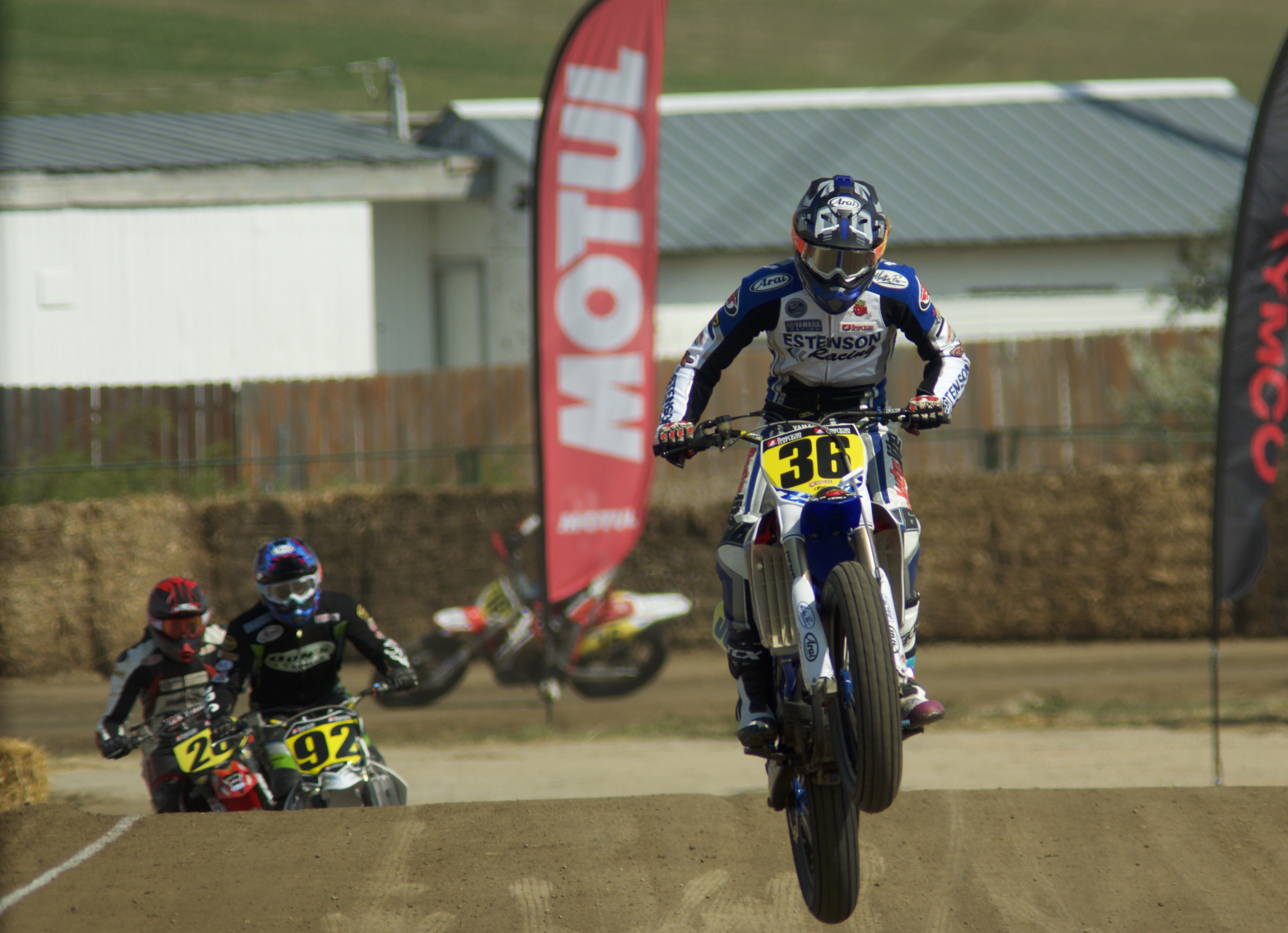 Kolby Carlile racing at the Sturgis TT, August 6, 2017